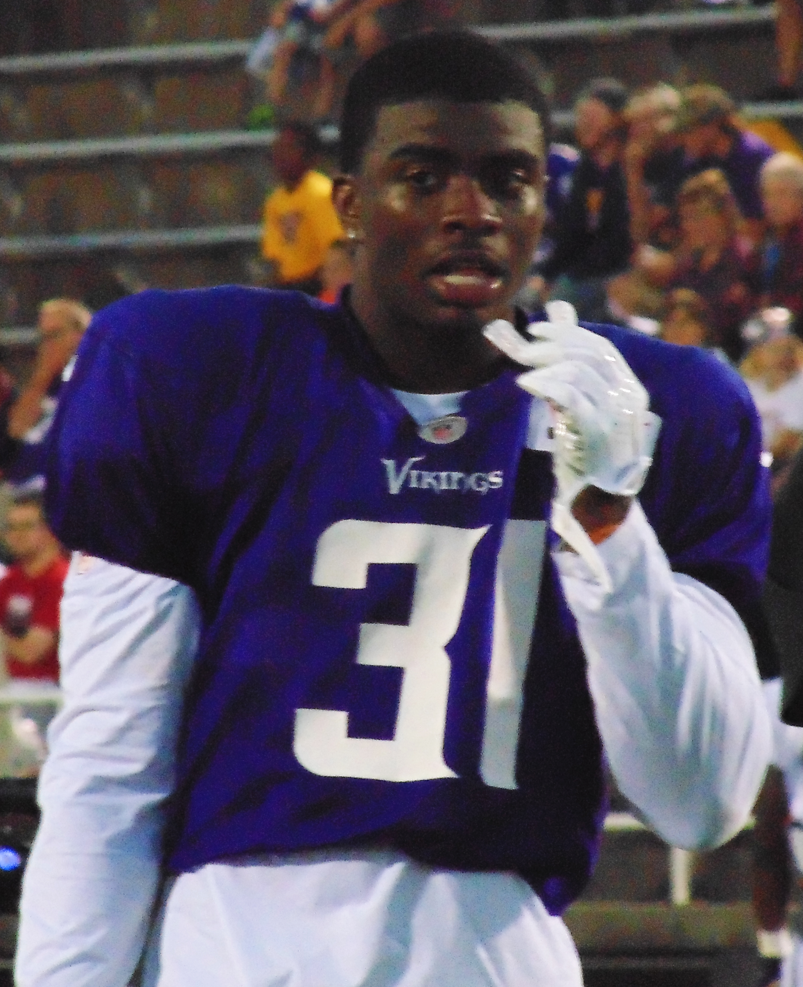 Minnesota Vikings running back Jerick McKinnon during 2014 training camp.